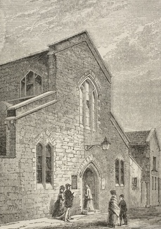 St James Hall in Bath in the 1880s where Catherine Hooper used to preach